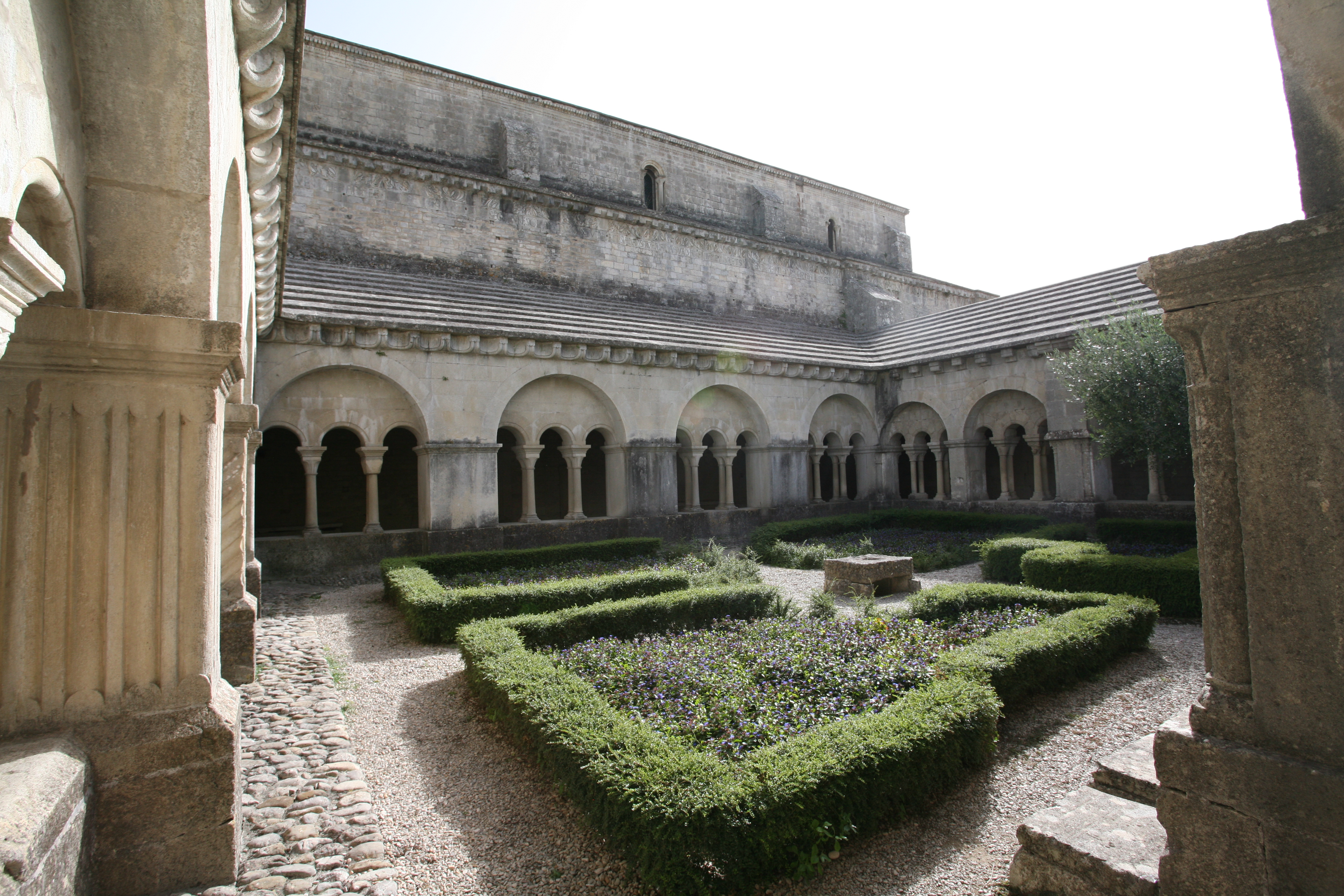 Notre Dame de Nazareth in Vaison-la-Romaine France